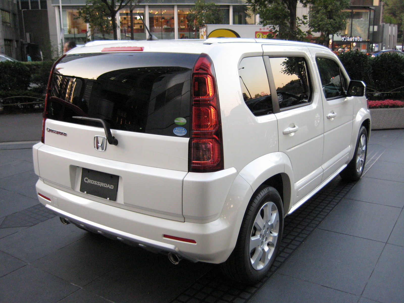 2007 Honda Crossroad in Honda Welcome Plaza